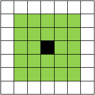 The Moore neighborhood of range 2